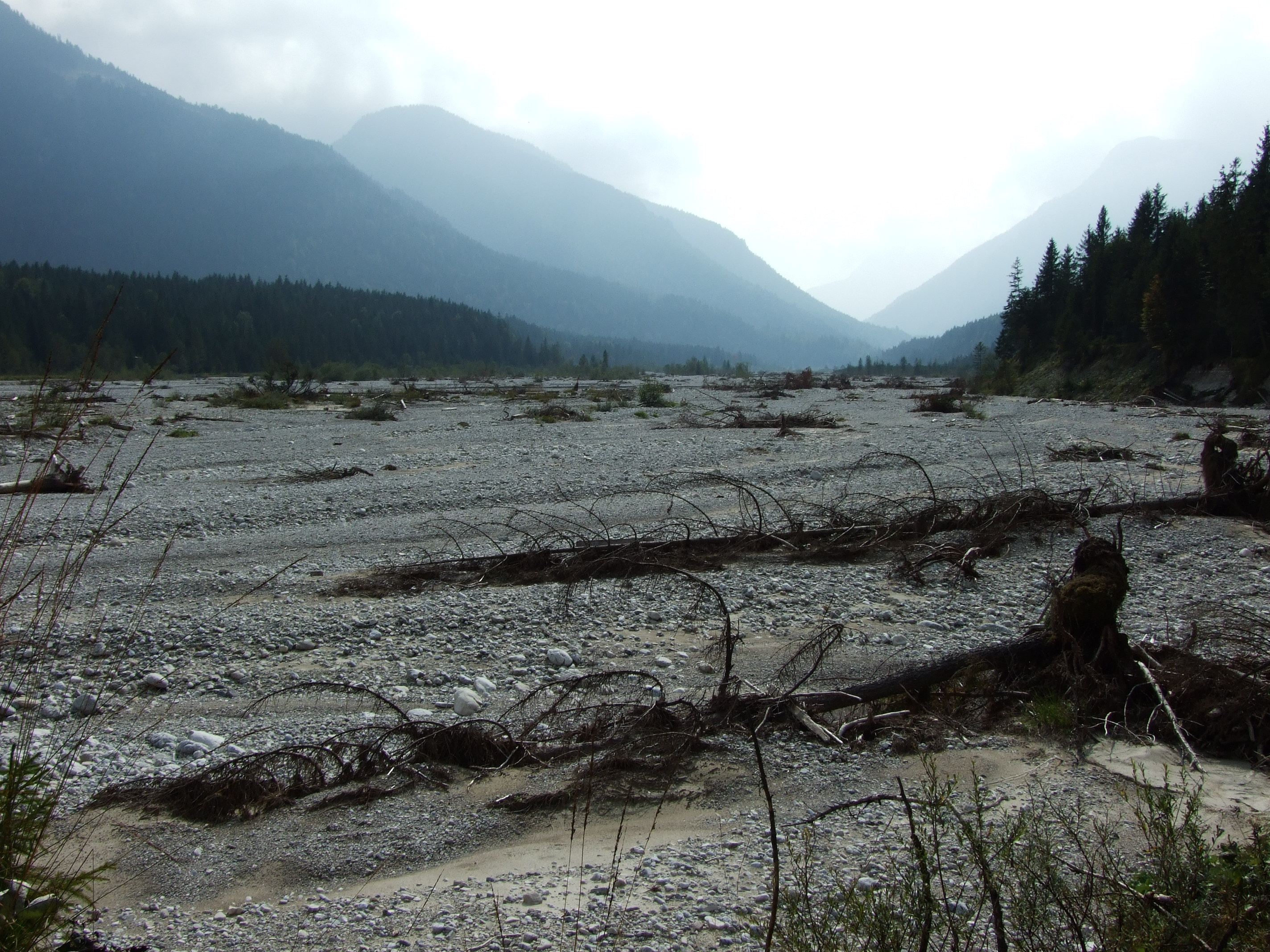 The valley of river Rißbach in Bavarian near confluence with Isar. Waterless.